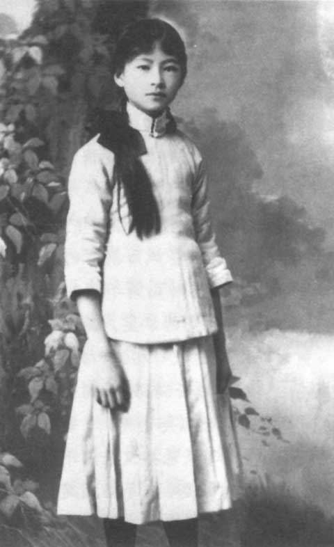 Lin Huiyin (1904-1955)